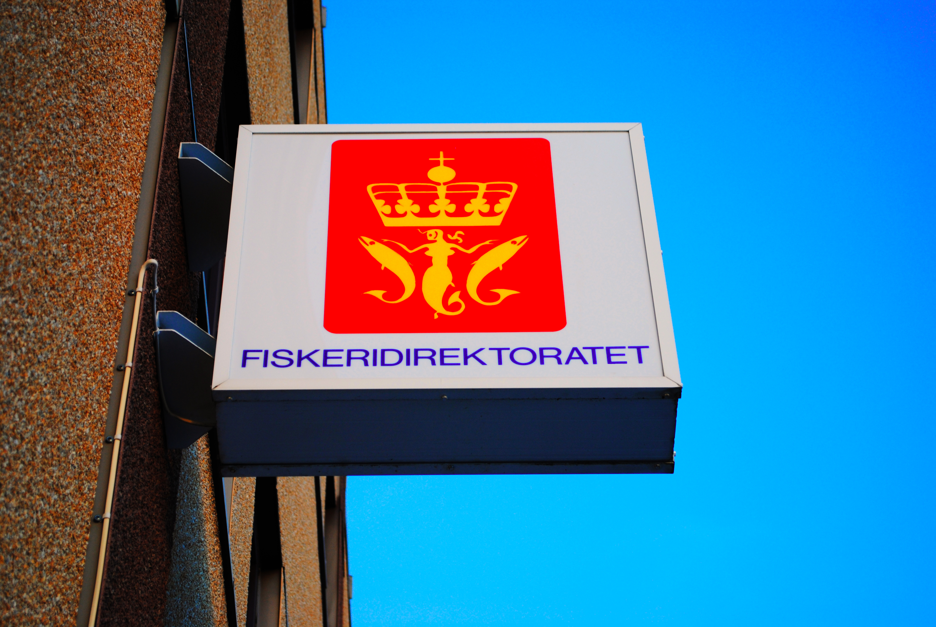 Logo of The Norwegian Directorate of Fisheries on a sign in Tromsø.